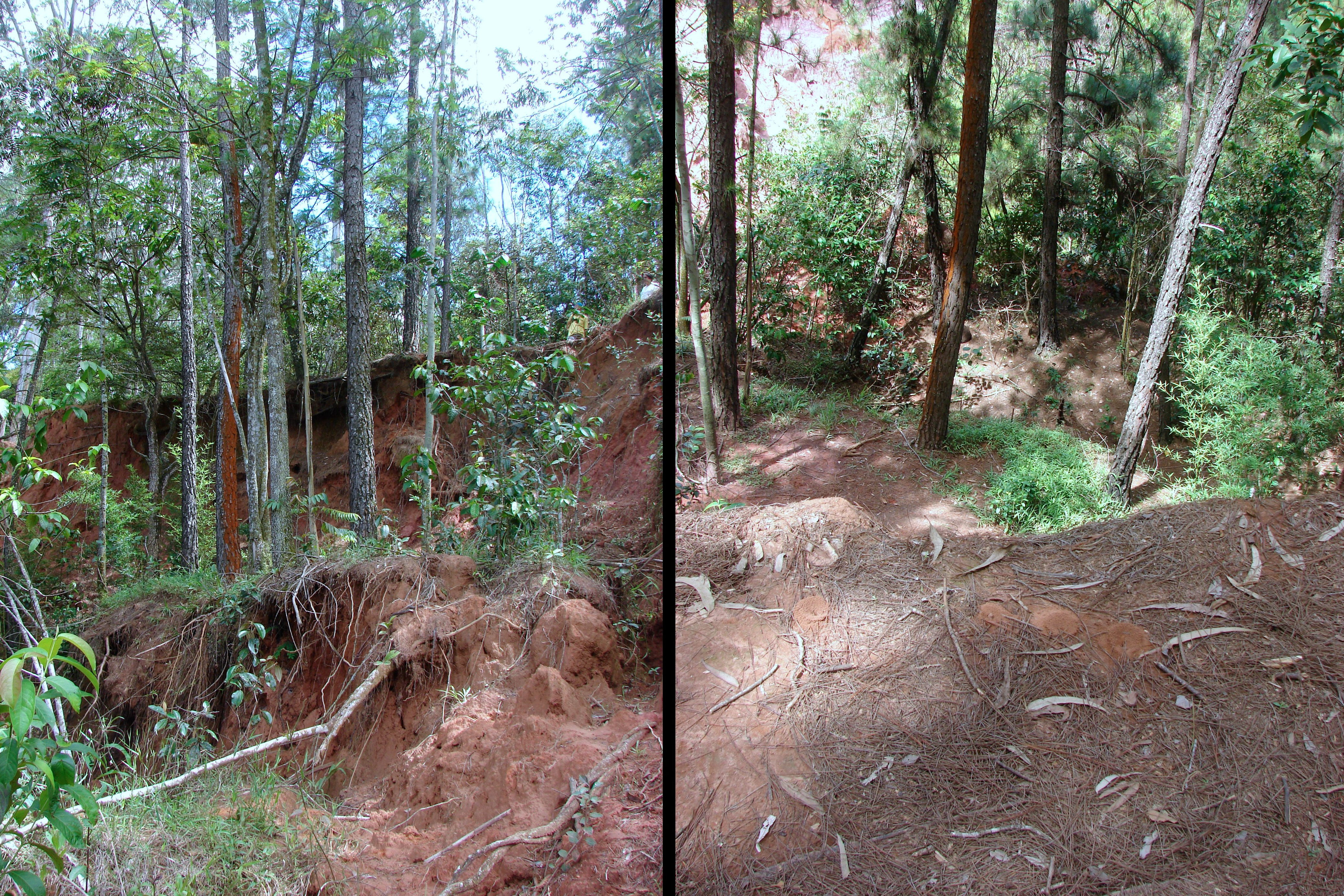 A striking example of a gully head erosion in Casa Branca, São Paulo State, Brazil. On the left we see the view from below and on the right it is the view from the top. We can see the three levels of step-like slips and yet the trees are still upright. Even the dense forest isn't enough to restrain the phenomenon. In spite of the presence of the vegetation the tunnelling erosion continues. The presence of lenticular mudstone beds in the local sandstone forces the underground water to flow horizontally, thus increasing the erosion rate.